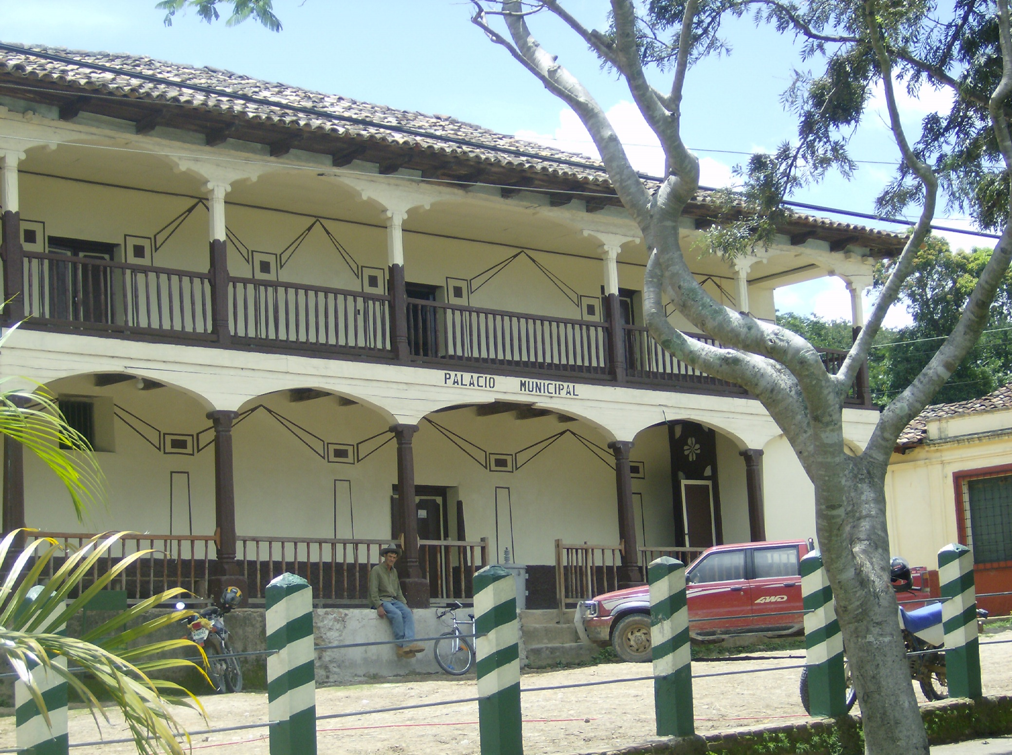 Erandique, municipality in the Honduran department of Lempira.